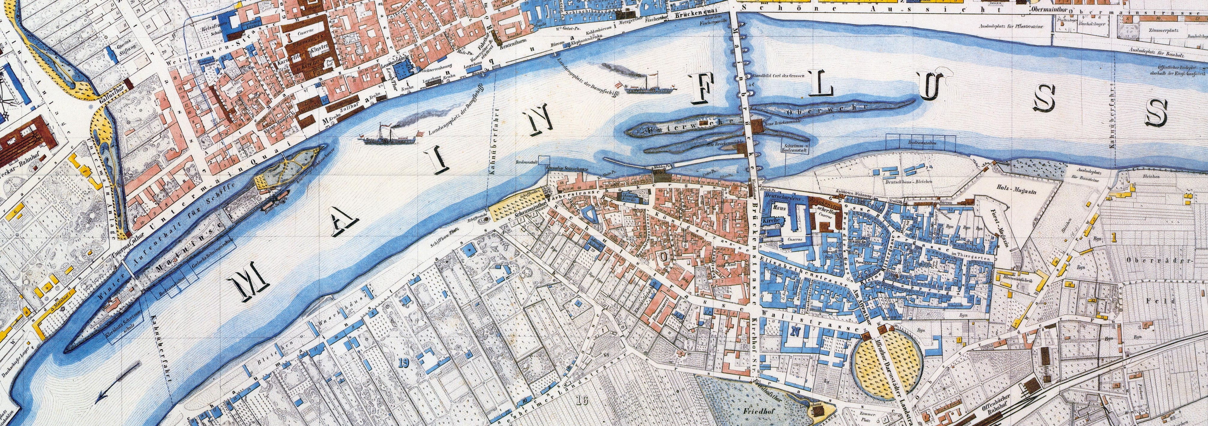 Frankfurt on the Main: Geometrischer Grundriss von Frankfurt a. M. u. Sachsenhausen mit der nächsten Umgebung (Geometrical plan of Frankfurt on the Main and Sachsenhausen and surrounding area)